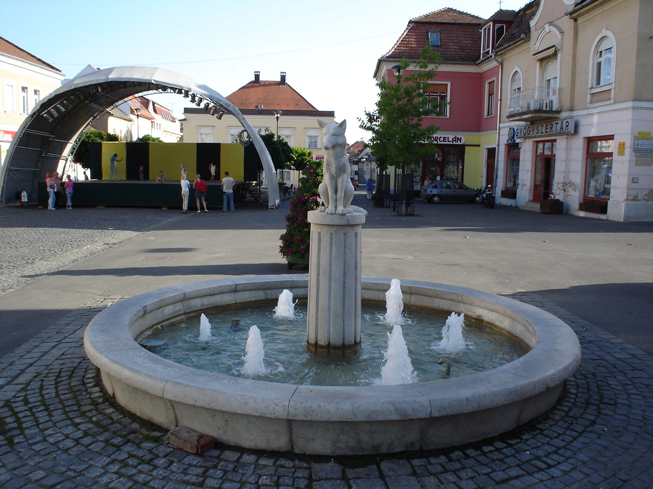 1 of 4 Main Square fountains. Fountain with White Wolf. -Gyöngyös, Hungary